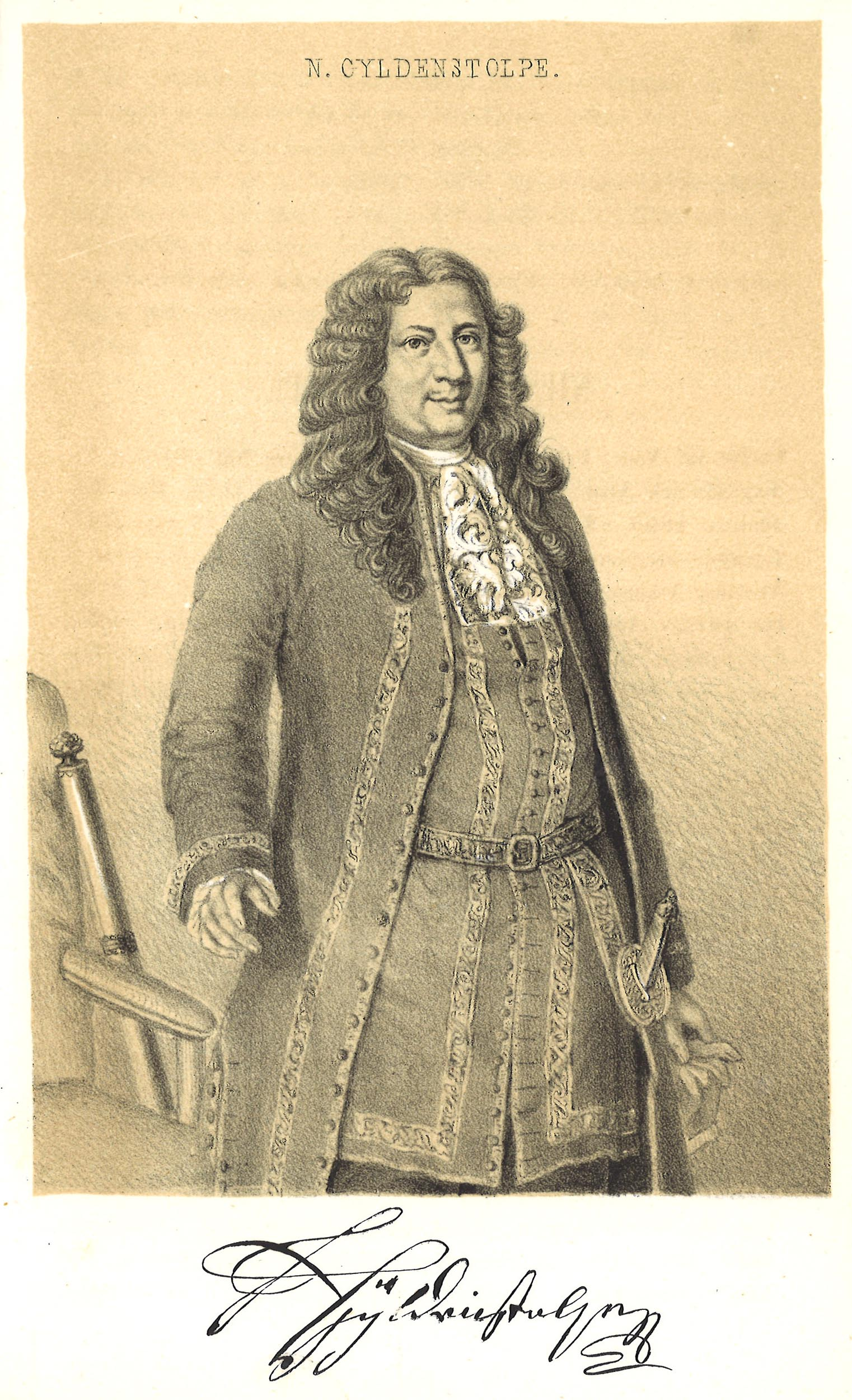 Nils Gyldenstolpe (1642–1709), Swedish count, civil servant, diplomat, university chancellor and "lantmarskalk" (chairman of the estate of nobility).